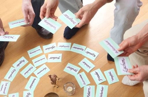 Cards with universal basic human needs. In the picture: A giraffe that symbolic animal of Nonviolent Communication by Marshall Rosenberg